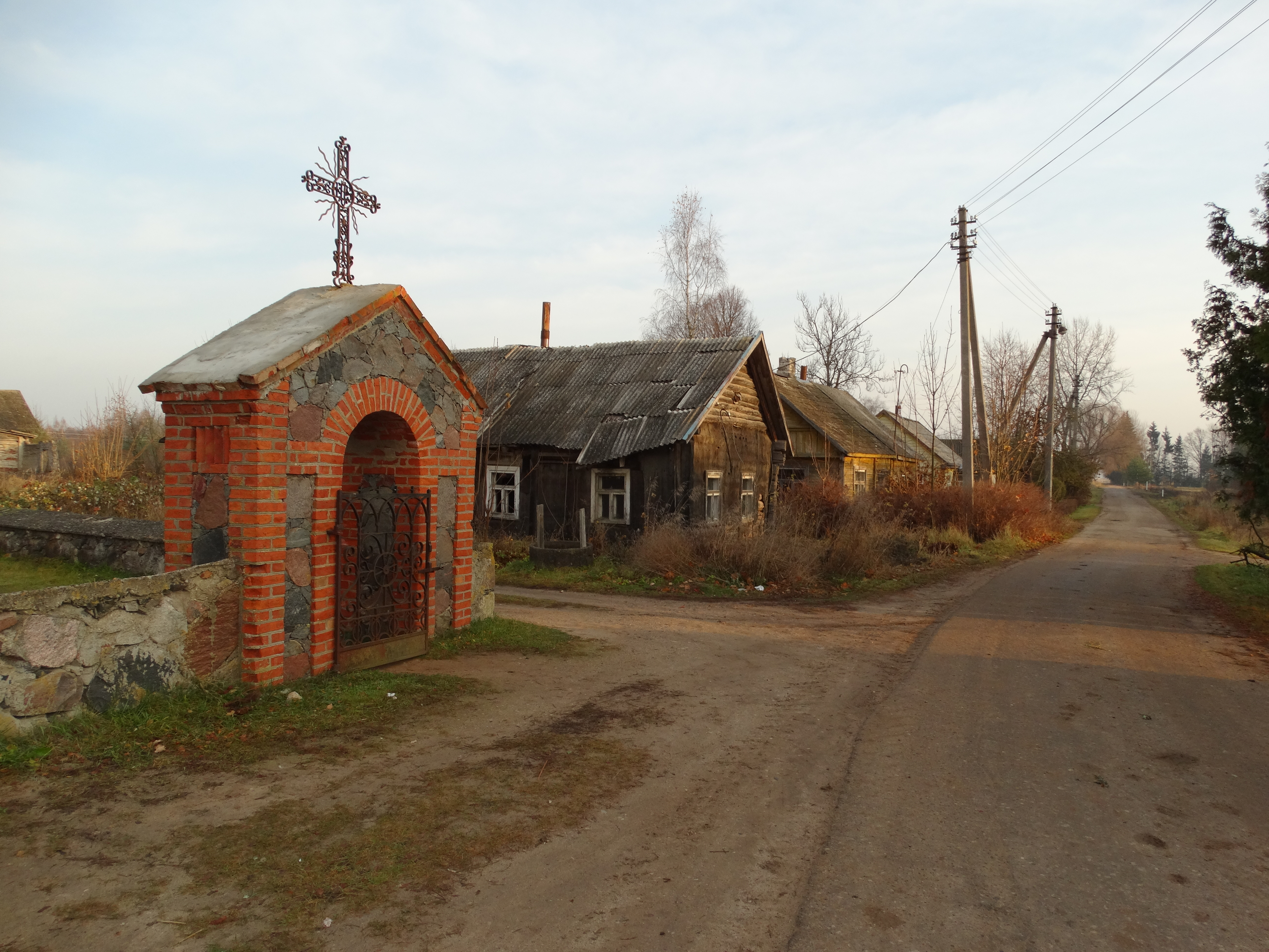 Kupreliškis, Biržai district, Lithuania